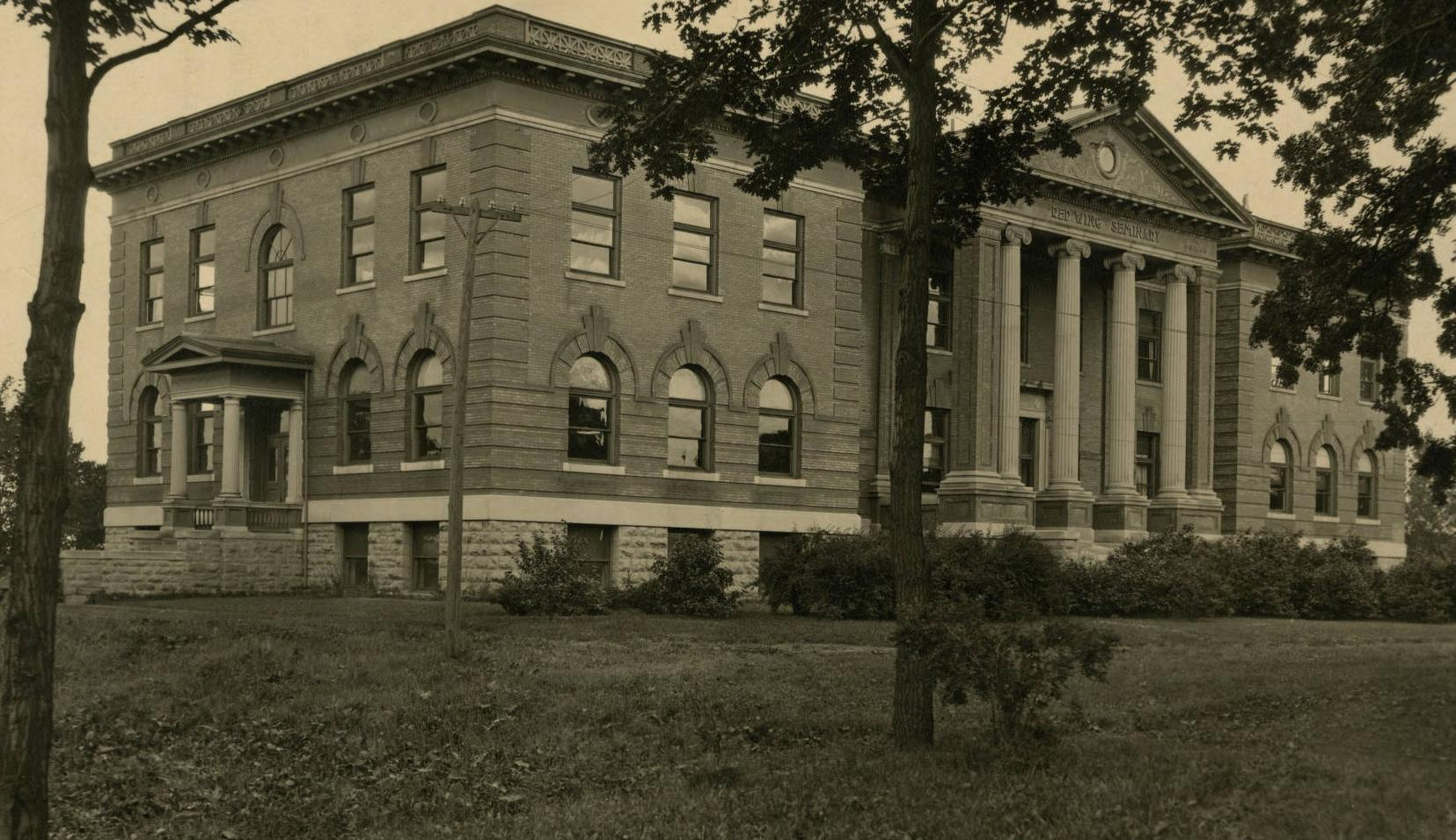 Hague Synod Lutheran Seminary on College Hill in Red Wing, Goodhue County, Minnesota, United States